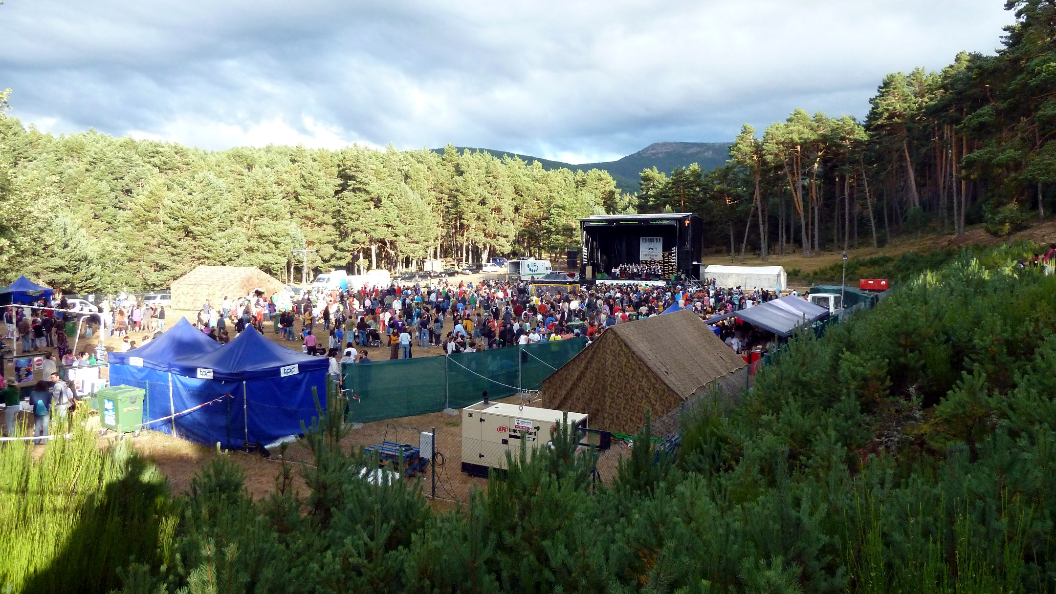 Demandafolk's concert esplanade, football field Las Vegas